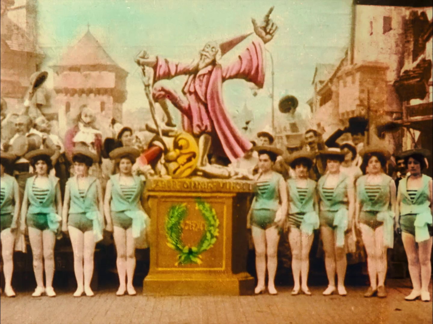 Frame from the only surviving hand-colored print of Georges Méliès's A Trip to the Moon, showing the commemorative statue seen in the final scene.